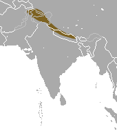 Royle's Pika (Ochotona roylei) range